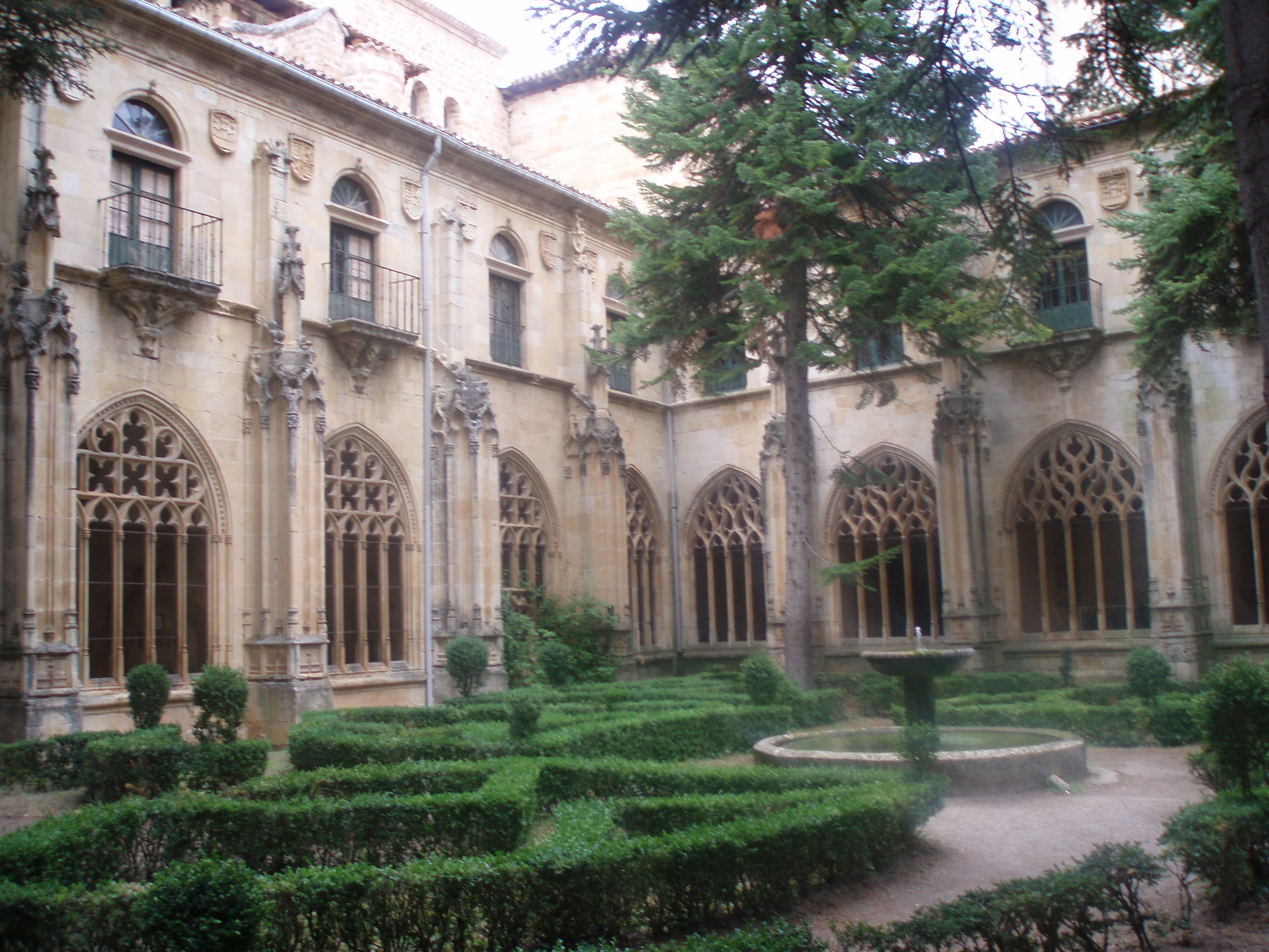 Monastery of Oña, in province of Burgos. (Spain).